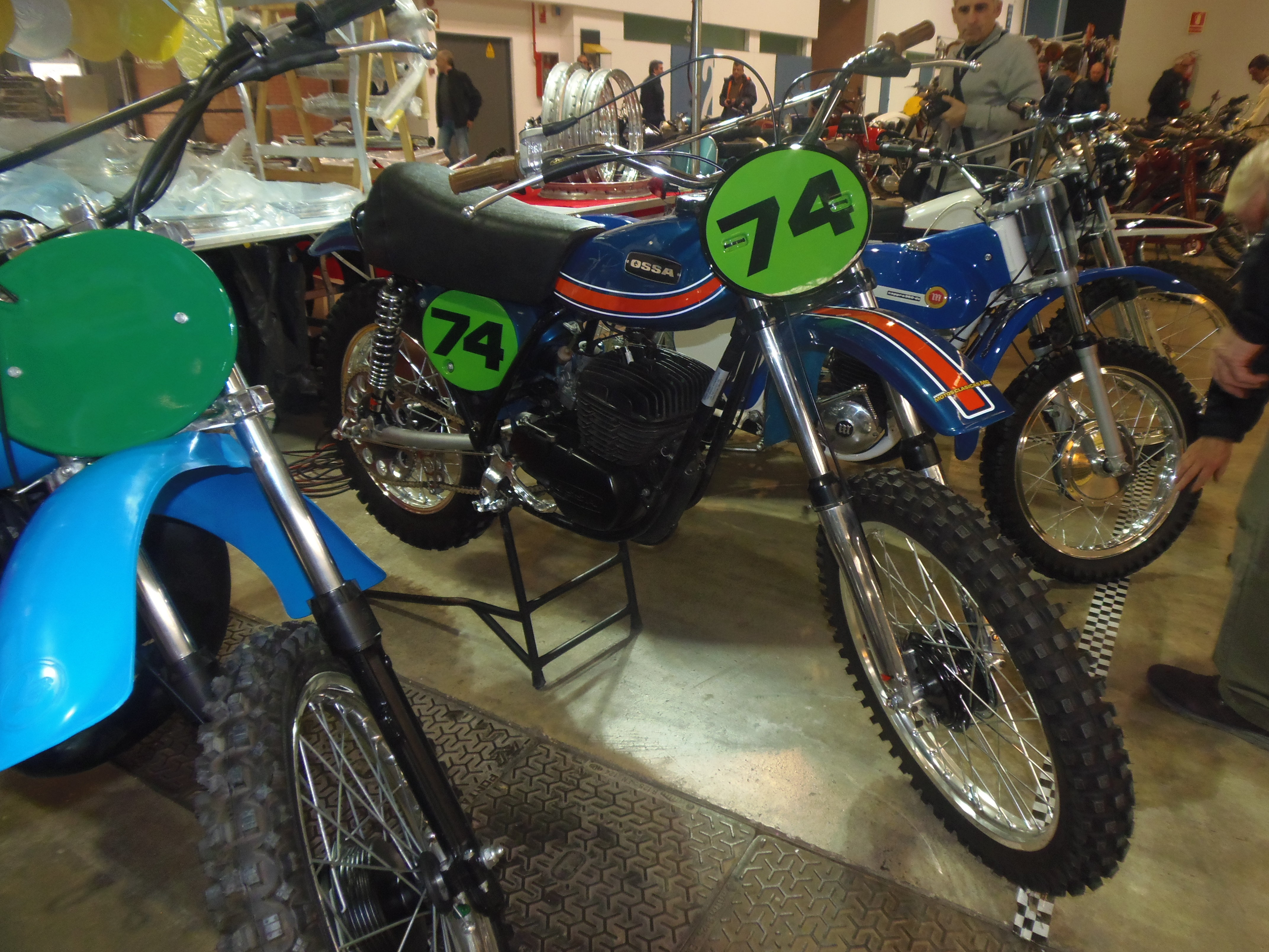 OSSA Phantom 250, 1974